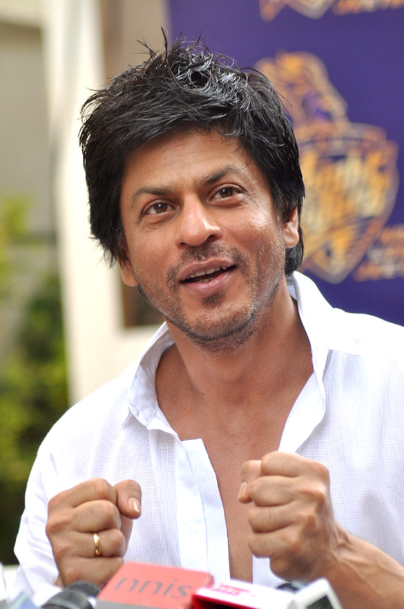 Shahrukh interacts with media after KKR's maiden IPL title